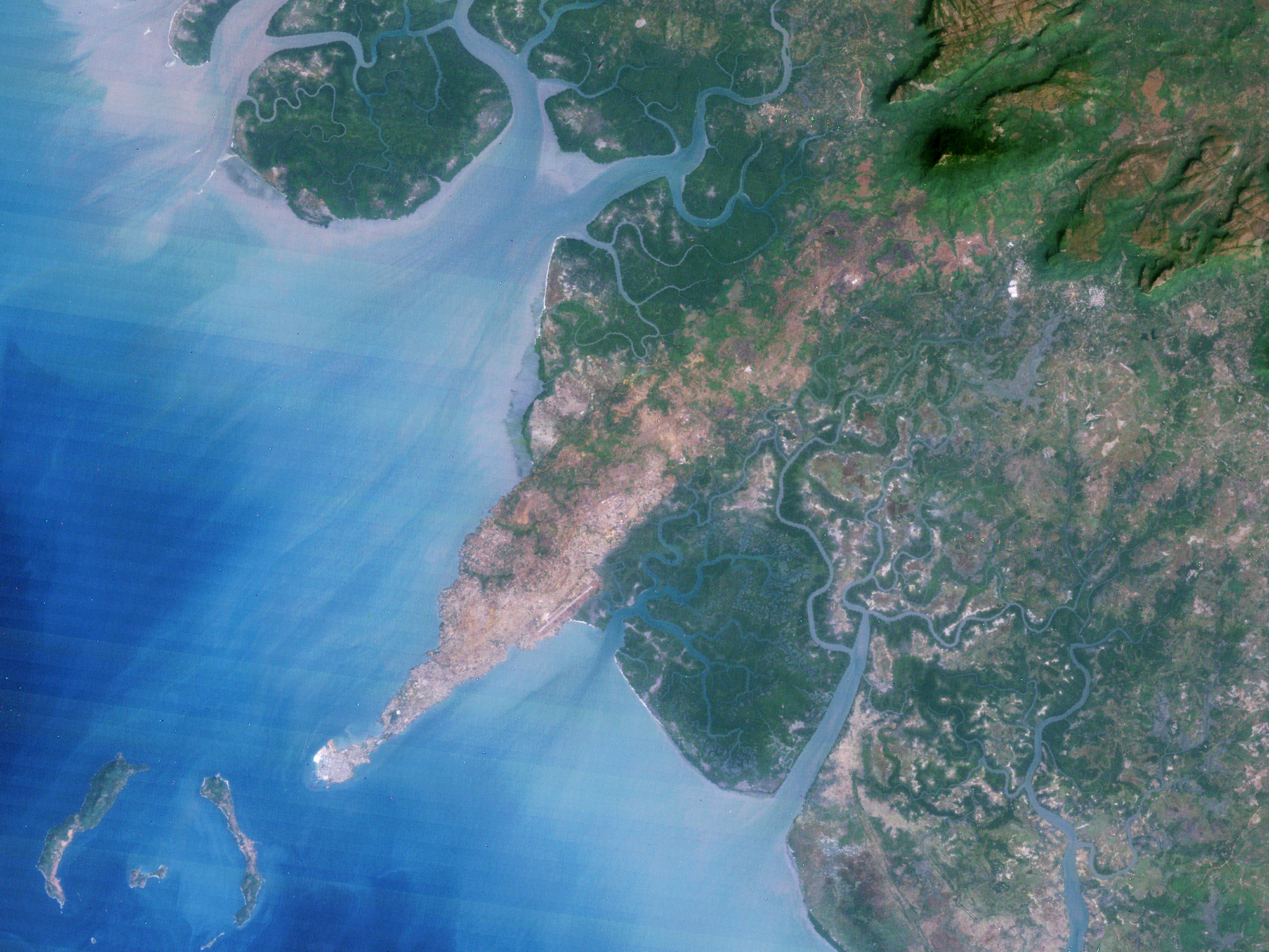 The city of Conakry, Guinea, originated on Tombo Island and spread up the Kaloum Peninsula, sandwiched between mangrove swamps. In the 1960s, the city had a population of fewer than 40,000; in 2006, it had a population of nearly 2 million. These natural-color images, acquired by NASA’s Landsat satellites, show the city’s dramatic growth from 1986 to 2000. Land and water features look similar to how they would look in a photograph by a digital camera. Water ranges in color from deep to pale blue, vegetation appears dark green, and bare ground and urbanized areas range in color from gray to beige to reddish-brown.